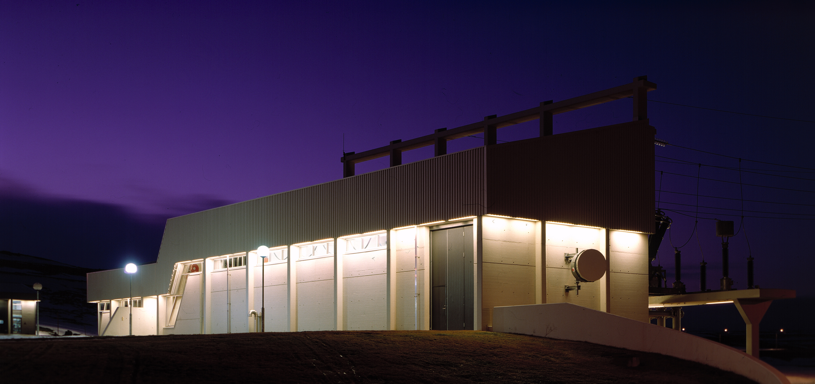 Blanda Power StationÍslenska: Blöndustöð